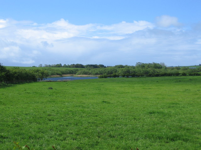 Fergus Loch. A view looking to the southwest over farmland towards Fergus Loch.